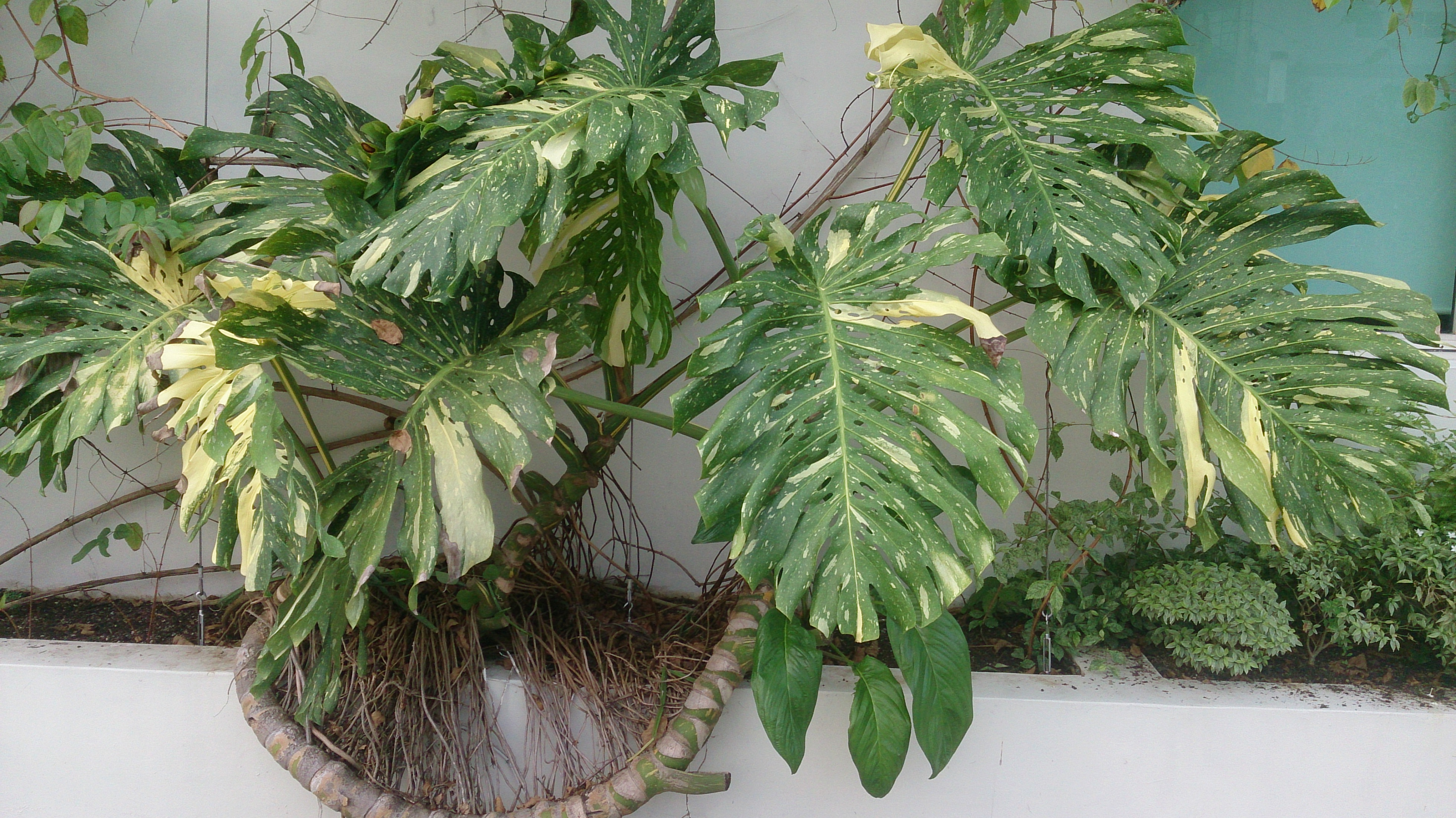 Monstera deliciosa 'Albo-Variegata'